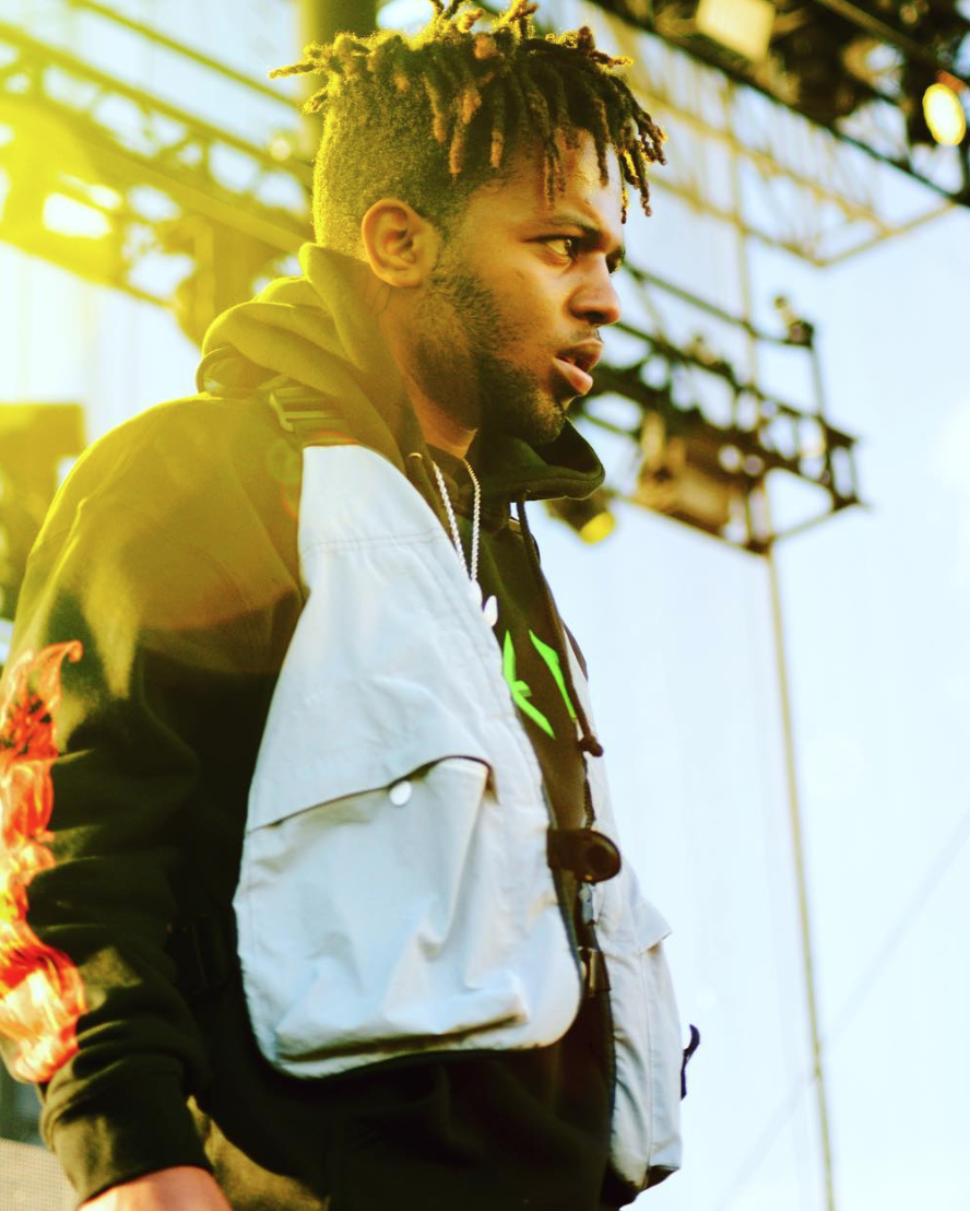 Photo by Fr8nkmorales